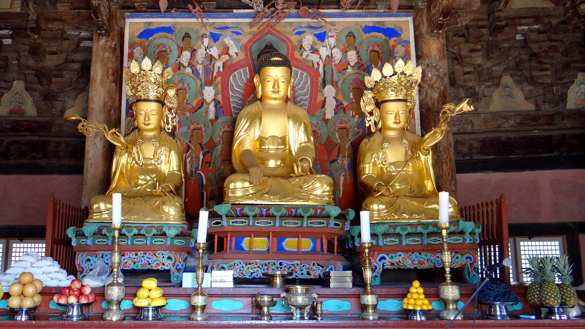 Daeungjeon (main worship hall) at Gaeamsa, a small, quiet Korean Buddhist temple in Buan County, North Jeolla Province, South Korea built in 634 C.E. during the Baekje Dynasty and expanded in 1313. The temple was burned down during the Imjinwaeran Japanese Invasion and reconstructed in 1658.